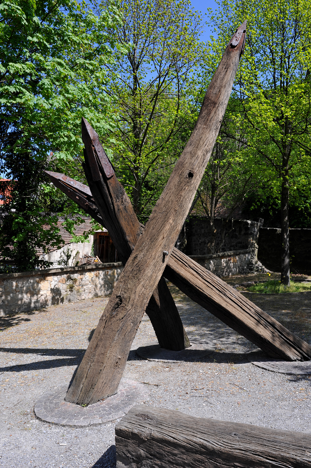 Piers of the bridge over the Rhine from around 1500 (nowadays situated near the Rheintor in Breisach); Haut-Rhin, France.